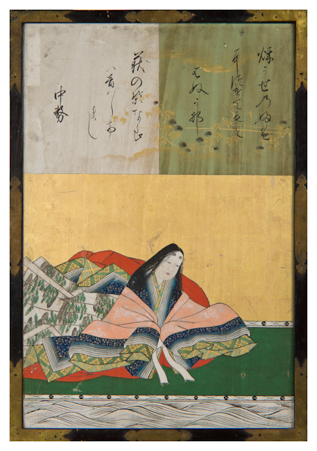 Sanjūrokkasen-gaku (Thirty-six Poetry Immortals framed picture) #36: Nakatsukasa